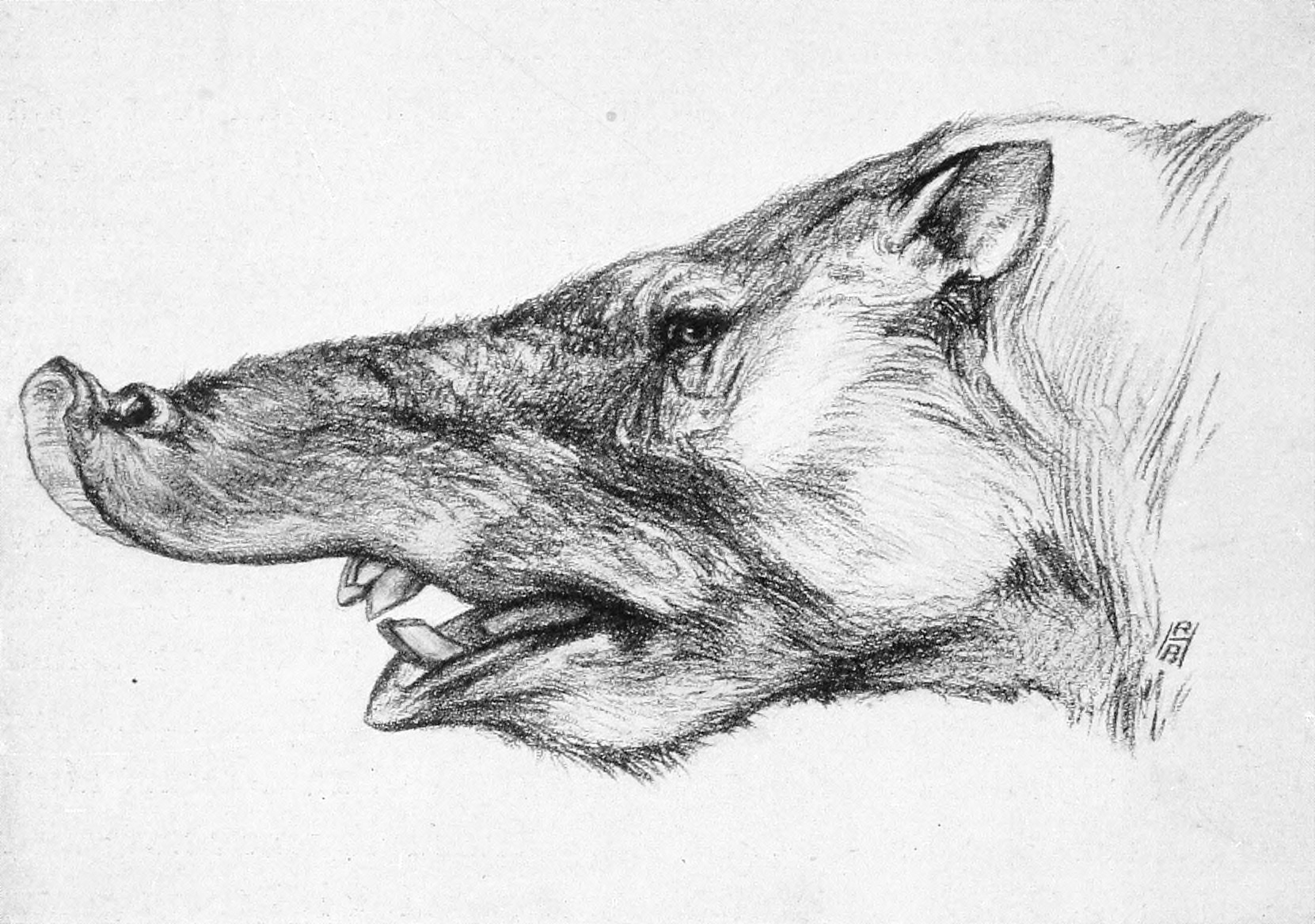 Life restoration of Pyrotherium from W.B. Scott's A History of Land Mammals in the Western Hemisphere. New York: The Macmillan Company.